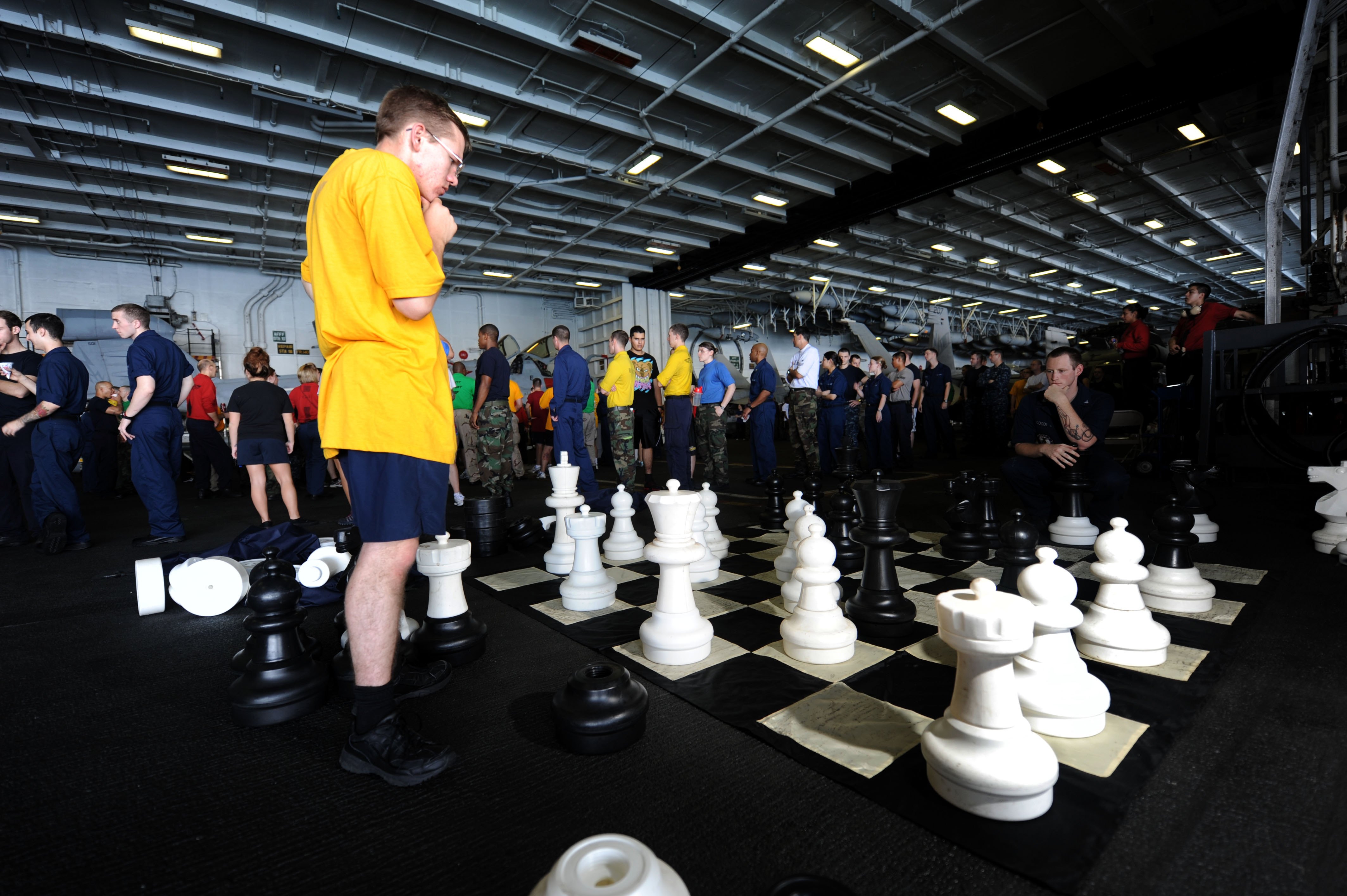 ARABIAN SEA (Oct. 22, 2011) Sailors play a large-scale chess game in hangar bay two during a steel beach picnic aboard the Nimitz-class aircraft carrier USS John C. Stennis (CVN 74). John C. Stennis is deployed to the U.S. 5th Fleet area of responsibility conducting maritime security operations and support missions as part of Operation Enduring Freedom and New Dawn. (U.S. Navy photo by Mass Communication Specialist 3rd Class Kenneth Abbate/Released) 111022-N-OY799-095